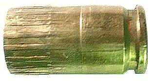 9mm Luger empty case. Chamber star flute imprinting on case.